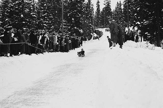 FIL European Luge Championships 1937 in Korketrekkeren, Oslo, Norway